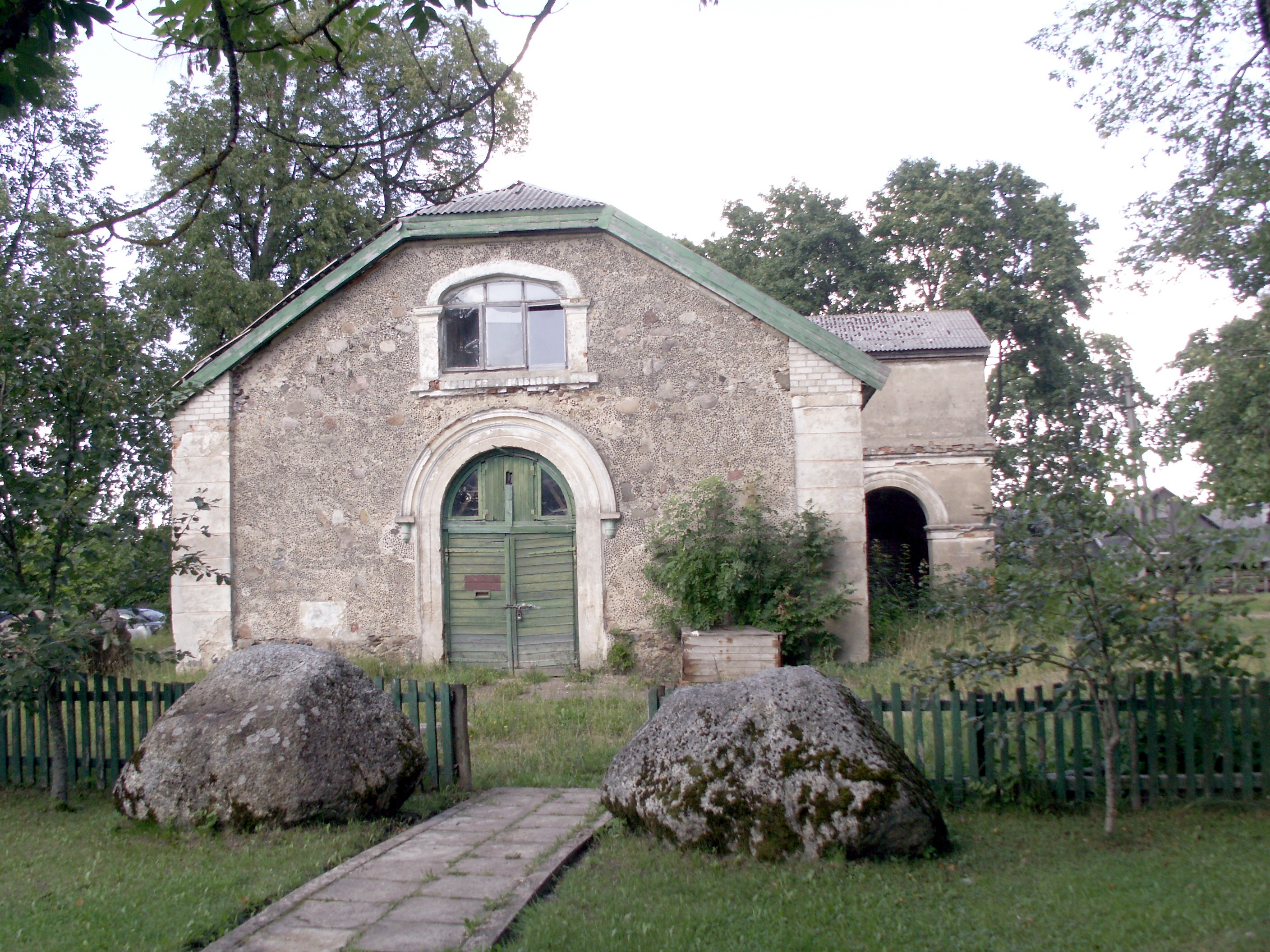 Seda manor, Mažeikiai district, Lithuania